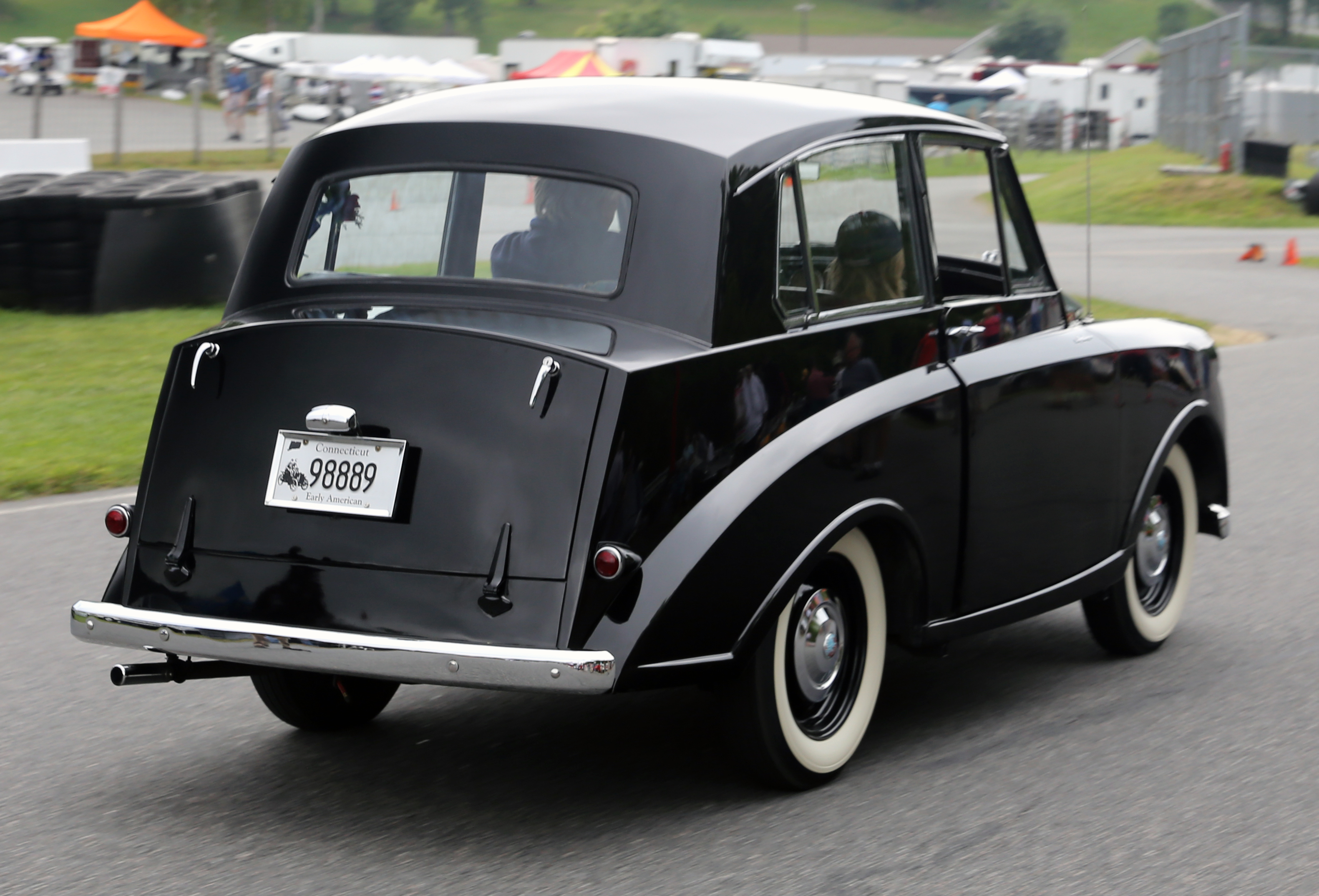 The rear view of a 1953 Triumph Mayflower cruising the circuit at the 2014 Lime Rock Concours d'Élegance.